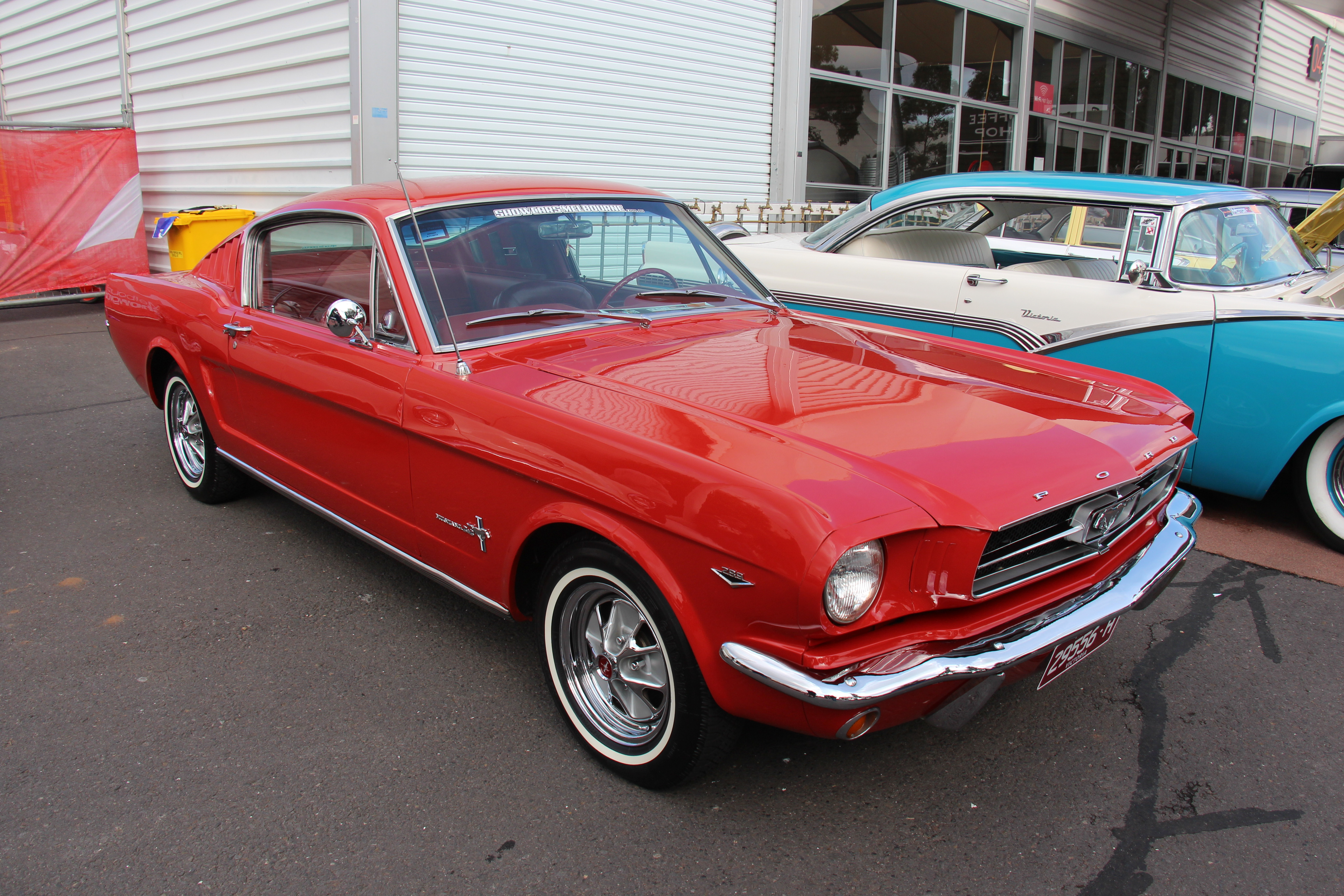 Rangoon Red. Ford introduced the Falcon based 'Pony Car', the Mustang, in April 1964, by 1965, it was available with a multitude of options. Also in 1965, the generator was replaced by an alternator, the new 'Fastback' and the extra sporty 'GT' option were available (the GT got V8, fog lamps, rocker panel stripes and disc brakes). Another option was an upgraded interior, the Pony Interior (embossed running ponies on the seats and woodgrain). Other options were air con, console and Rally Pac (clock and tach on the steering column). With the introduction of the 289 V8, there were 3 performance options to choose from; the base 200hp 2 barrel (C Code), 225hp 4 barrel (A Code) and the high performance 271hp Hi Po 289 (K Code), also a 200 cu in 6 cyl (T code)